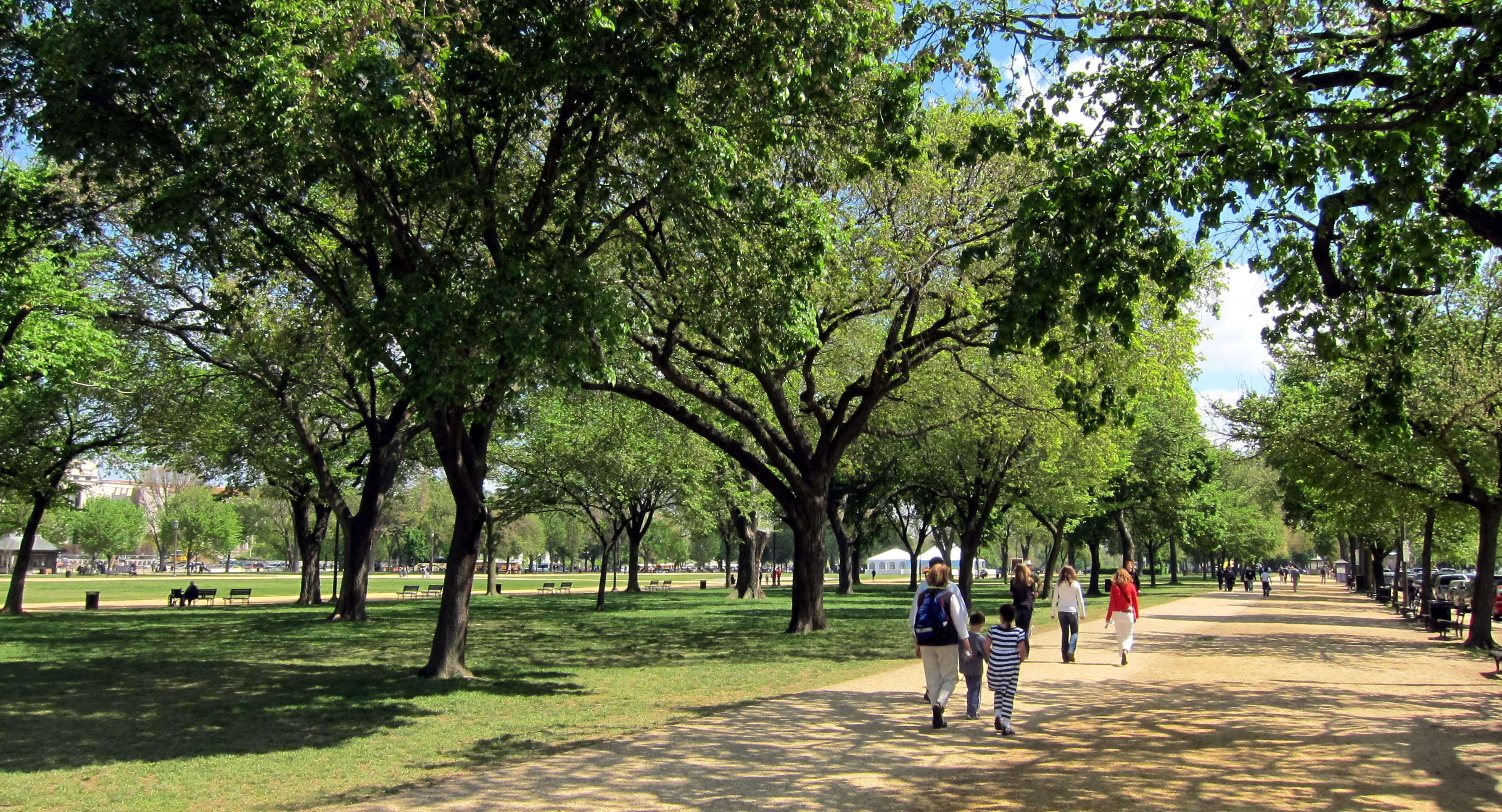 Walking path — facing east on the National Mall, in Washington, D.C. (as viewed near the 1300 block of Jefferson Drive, S.W.) The National Mall is listed on the National Register of Historic Places and the District of Columbia Inventory of Historic Sites.